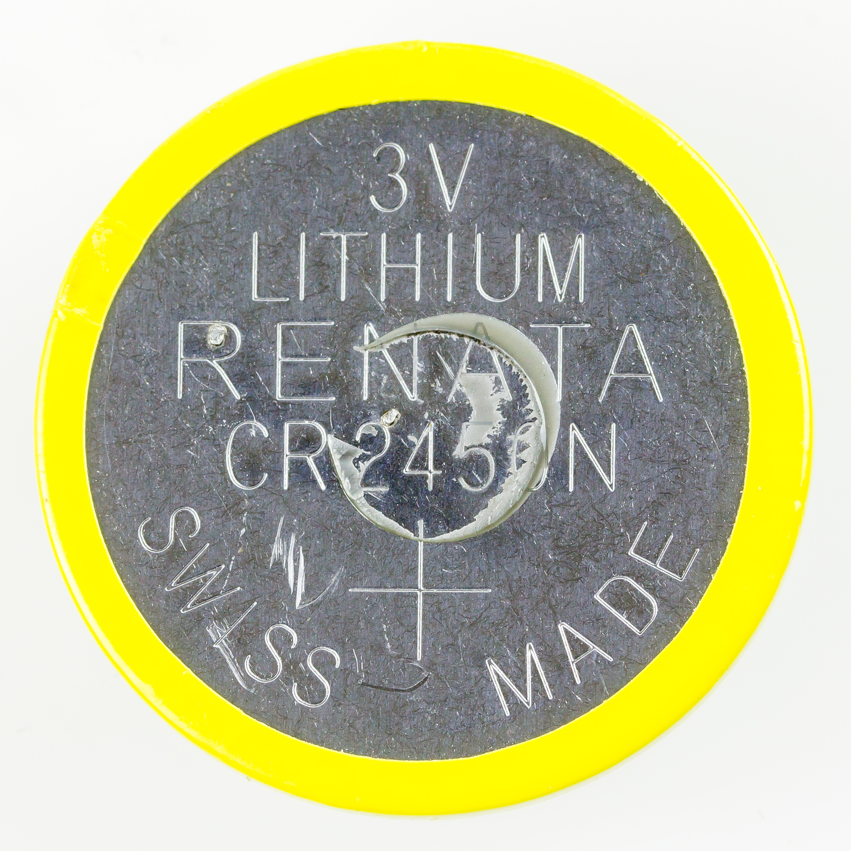 CR2450N - Ranata AG. Used as backup battery in Ingenico Healthcare ORGA 6041